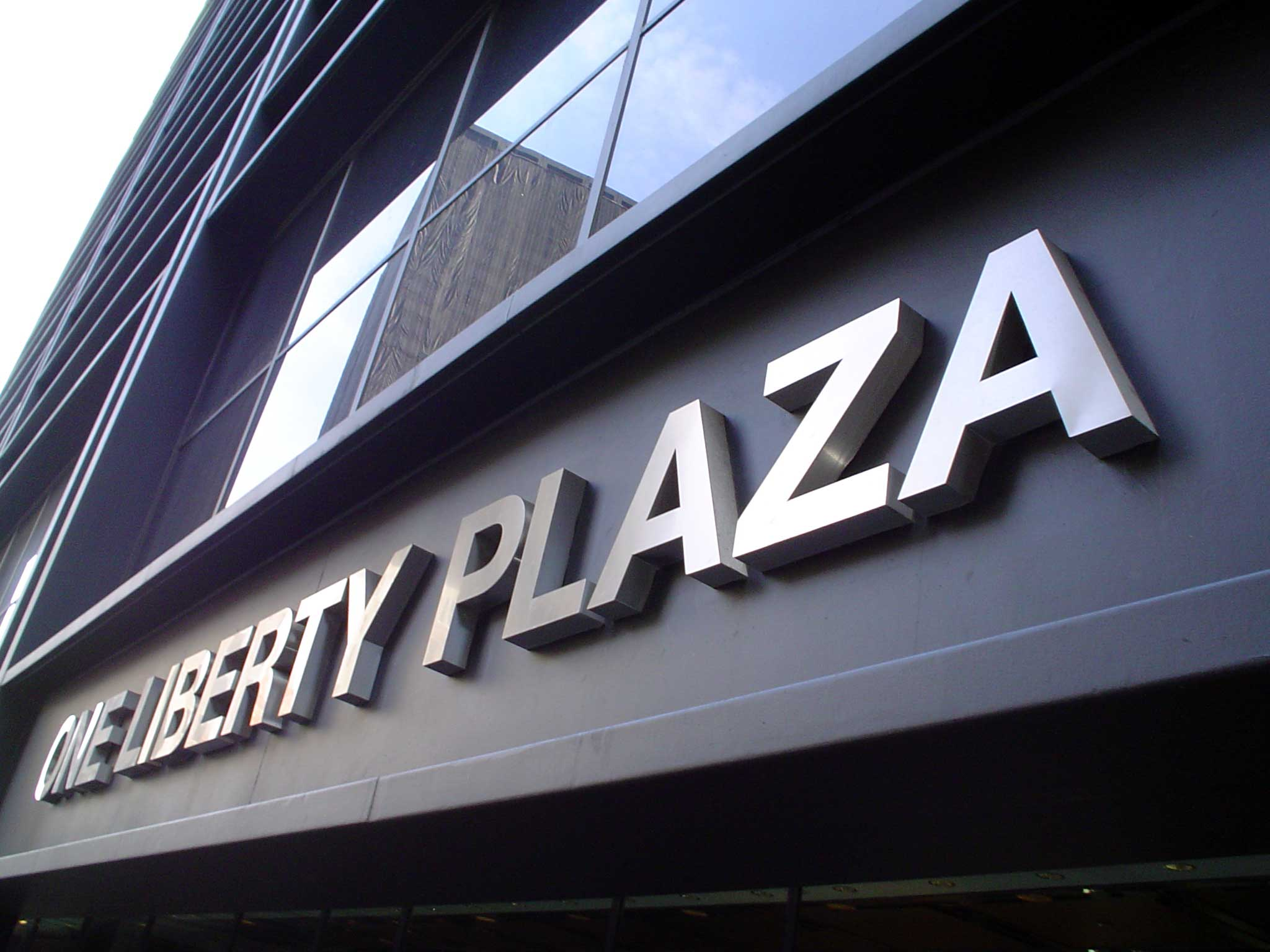 Base of One Liberty Plaza, NY